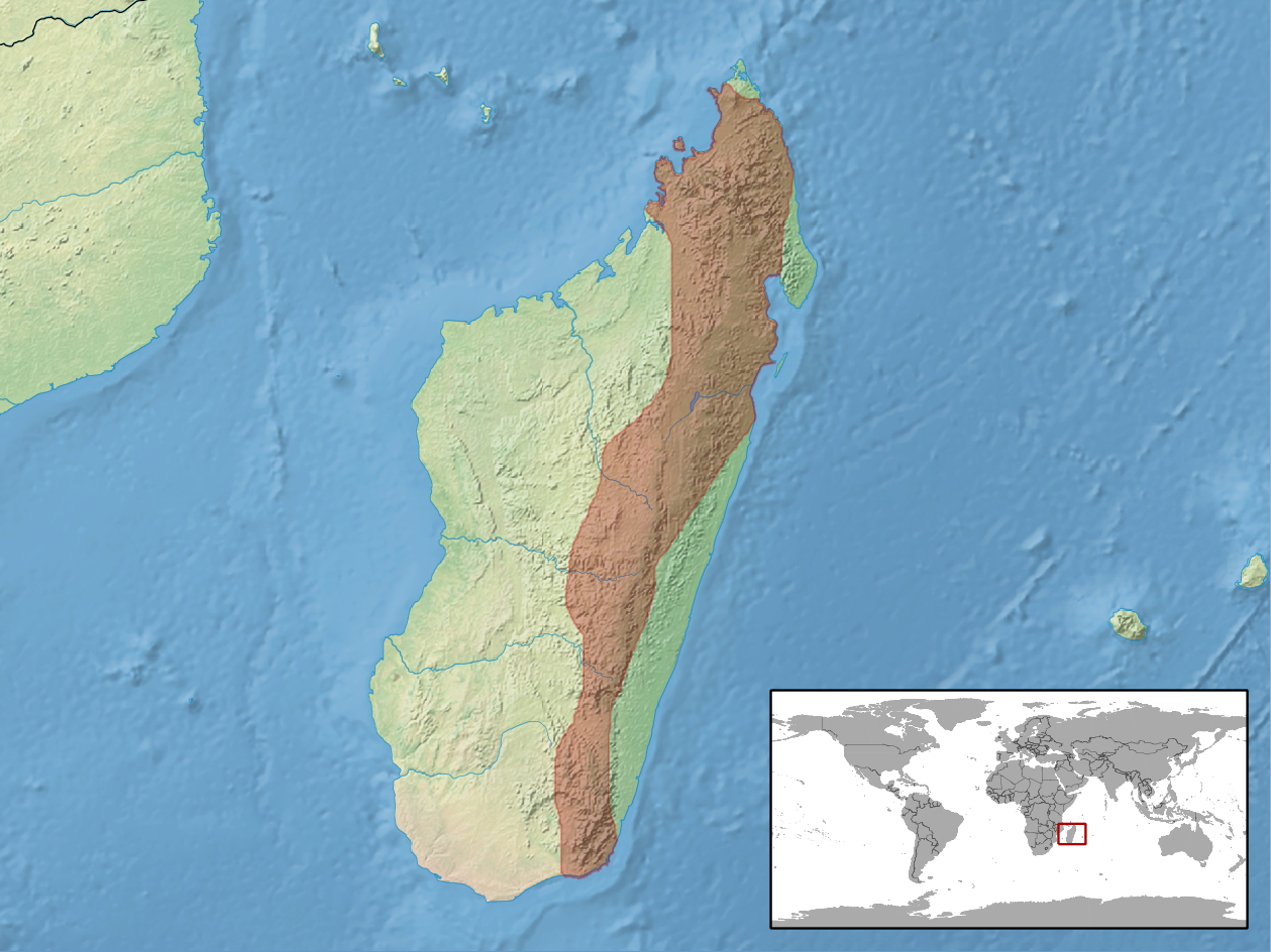 geographic distribution of Calumma nasutum (Native: Madagascar)